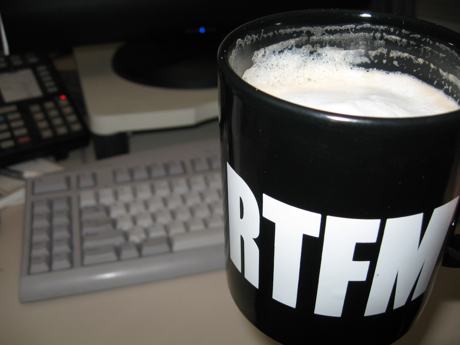 Coffee mug, with letters: RTFM (for RTFM, AKA "Read the Fucking Manual".